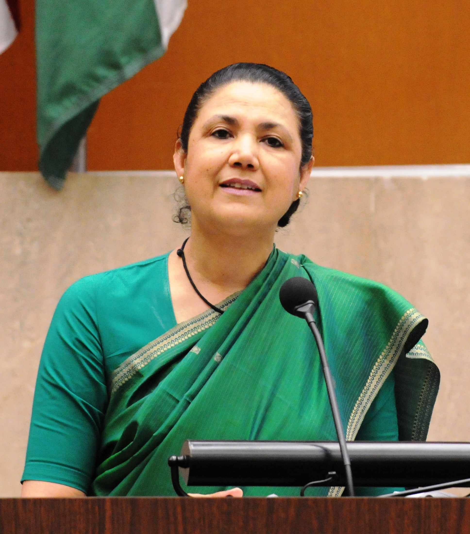 Indian Ambassador to the U.S. Meera Shankar delivers the closing remarks at the U.S.-India People to People Conference held at the U.S. Department of State in Washington, D.C., on October 28, 2010. [State Department photo/ Public Domain]